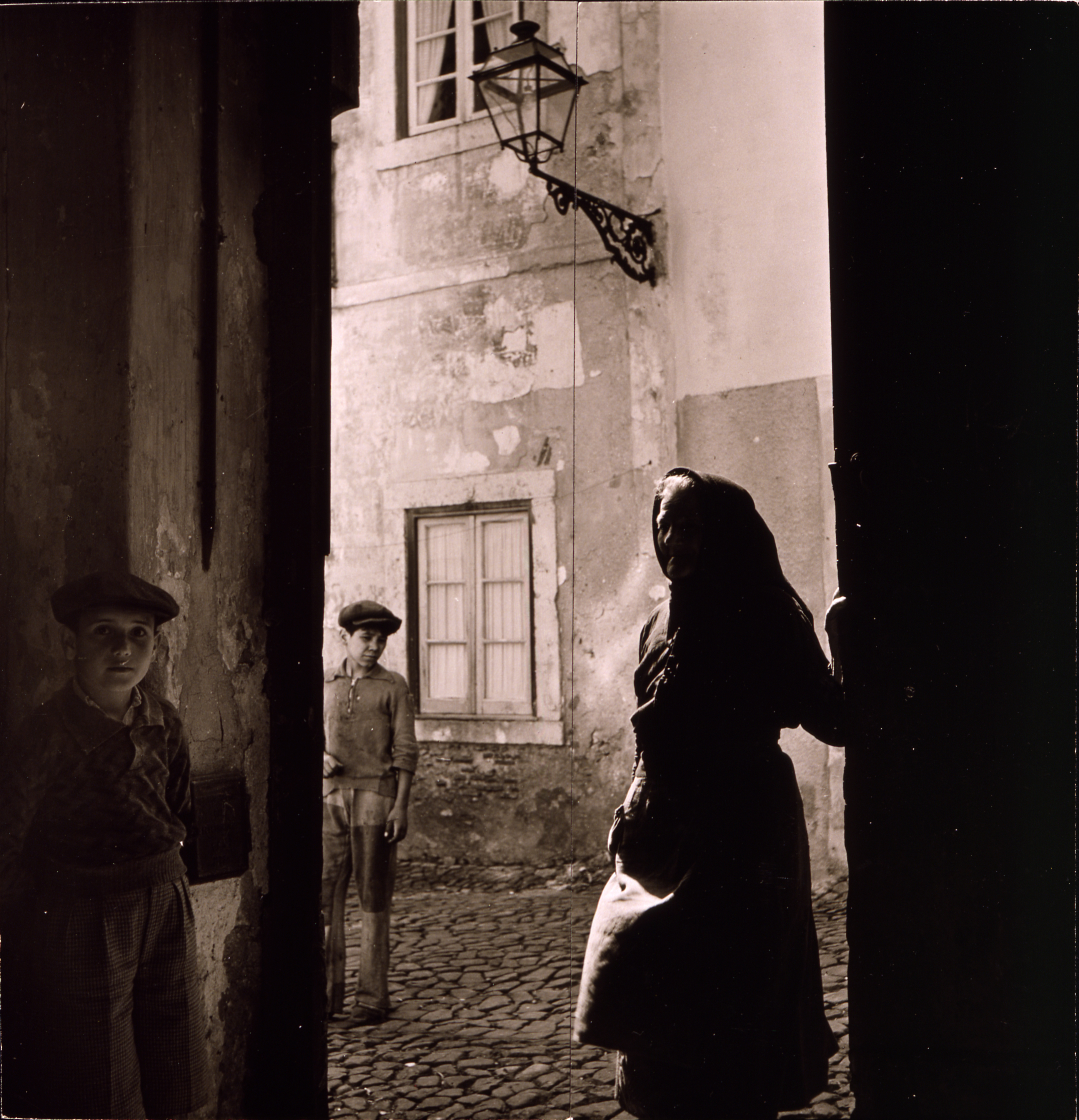 Medieval street in Alfama, Lisbon, Portugal.